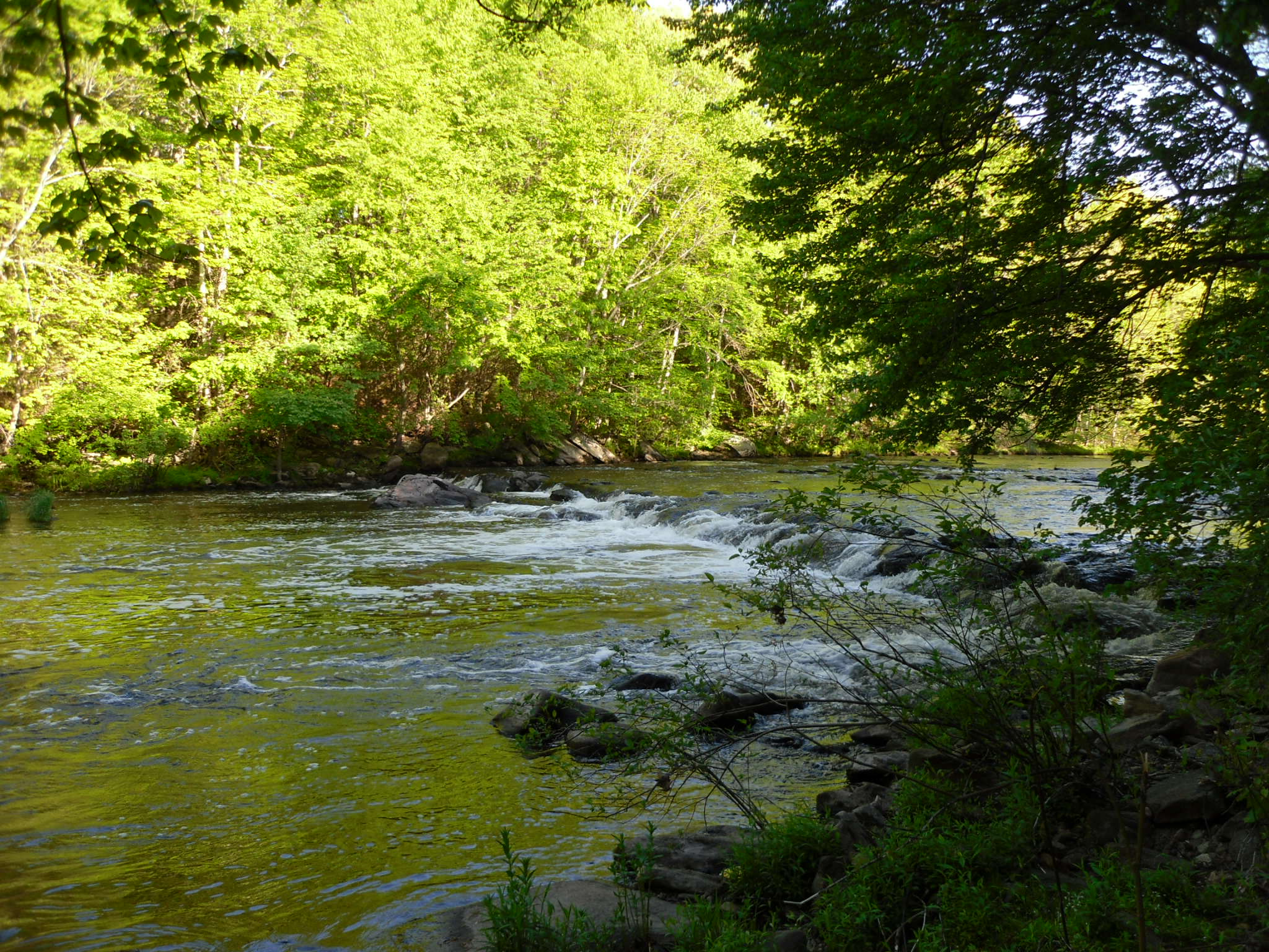 Blackstone River Gorge - Massachusetts.